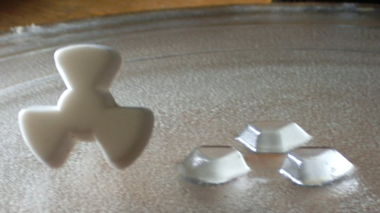 photograph of underside of panasonic microwave oven platter Jasen betts 05:16, 30 December 2006 (UTC)